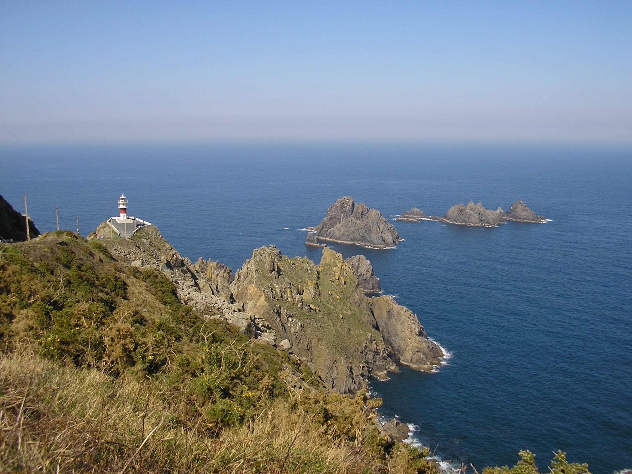 Cape Ortegal located in Cariño Municipality in the Province of A Coruña, Galicia, Spain.